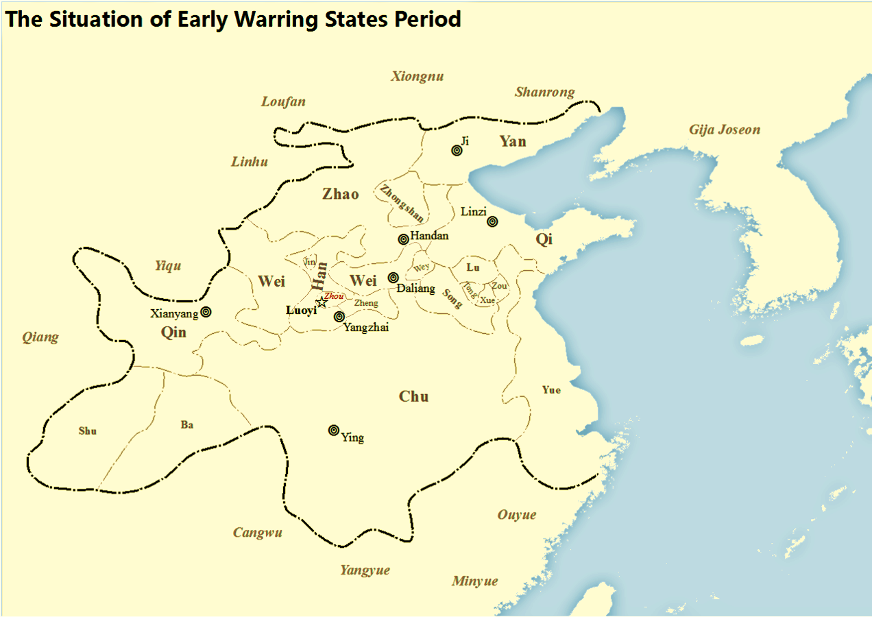 Map showing states in the early Warring States period of Eastern Zhou Dynasty in Chinese history